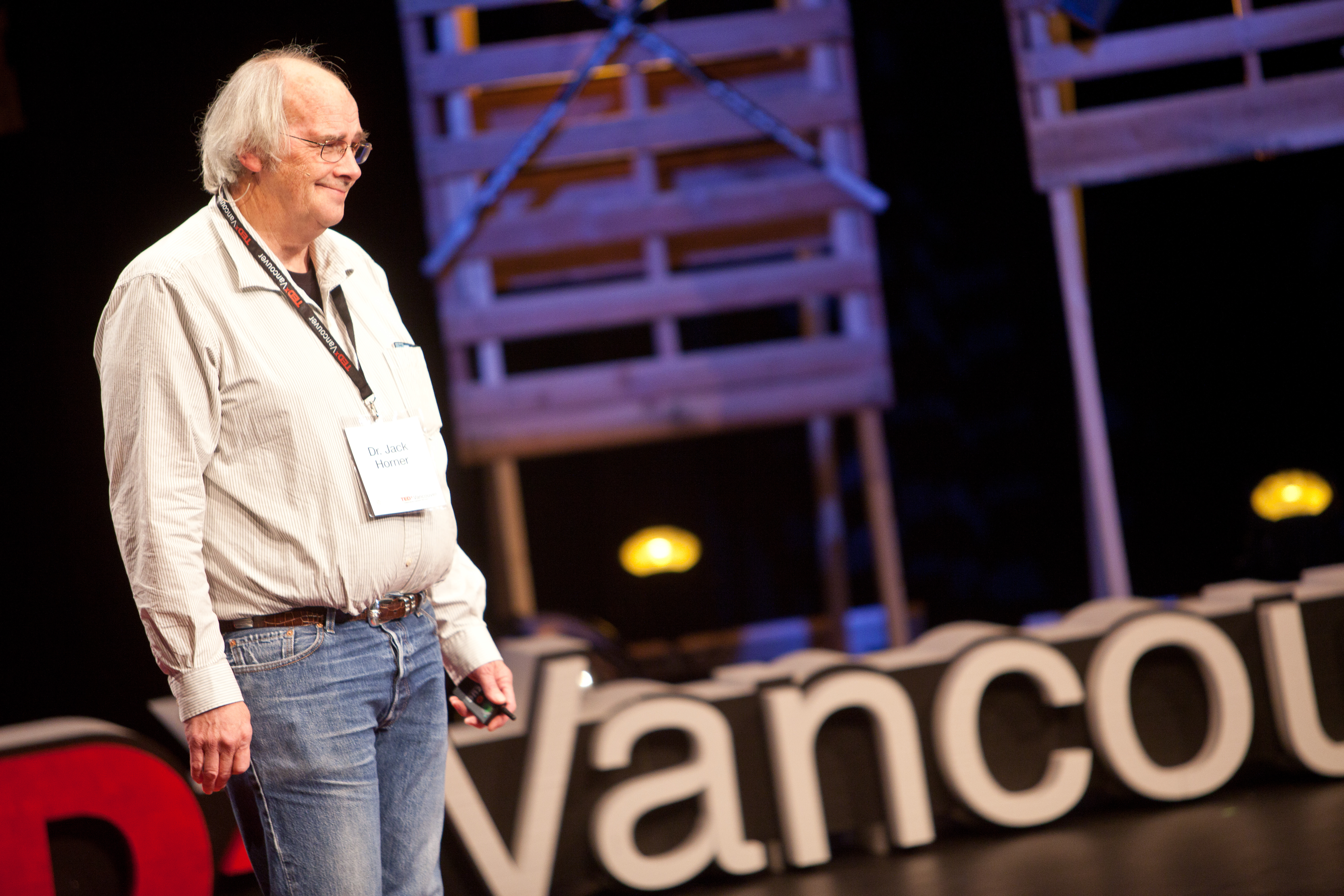 photo by Kris Krüg